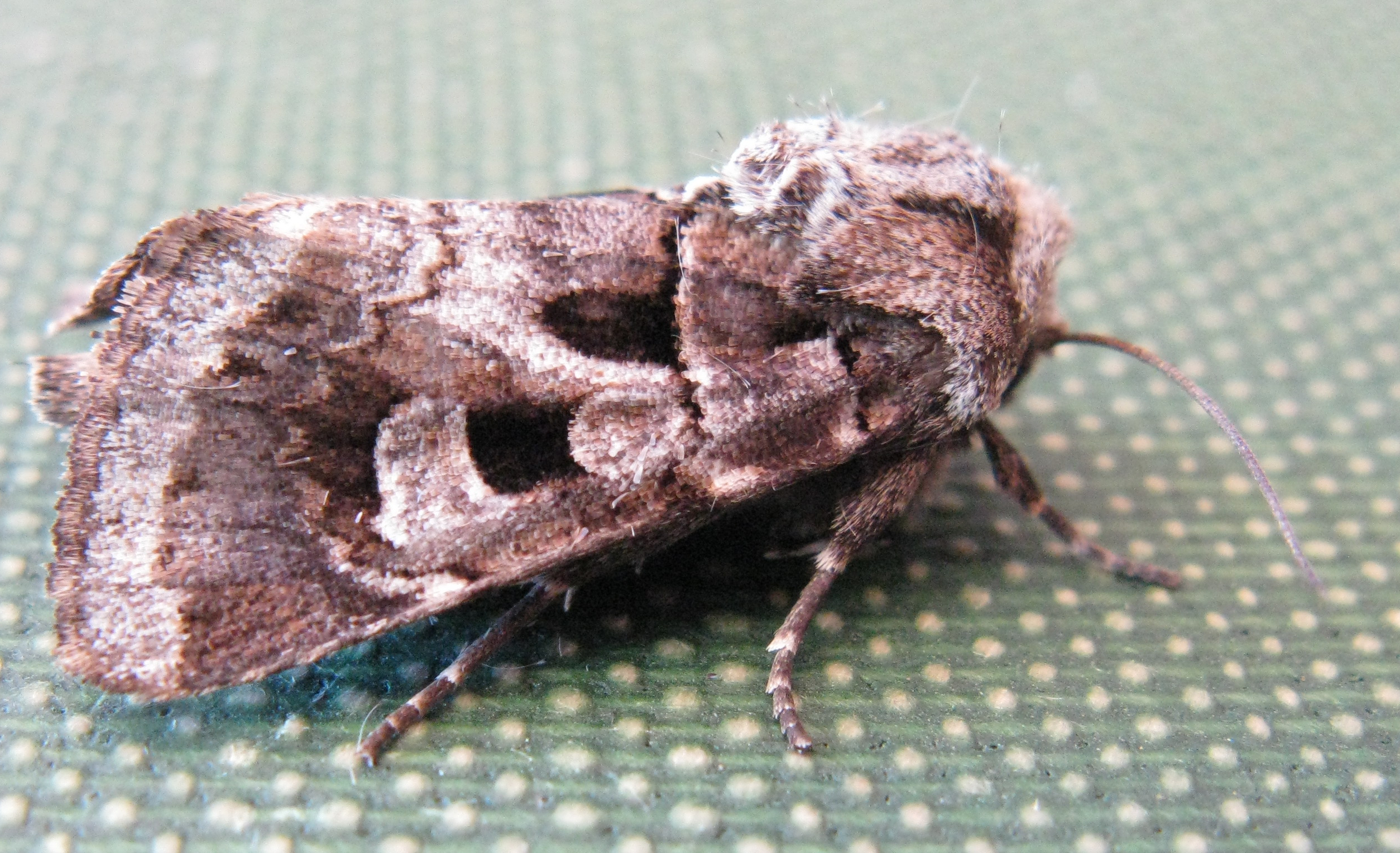 Neuranethes spodopterodes Noctuidae. Agapanthus borer. Adult female. Lateral aspect